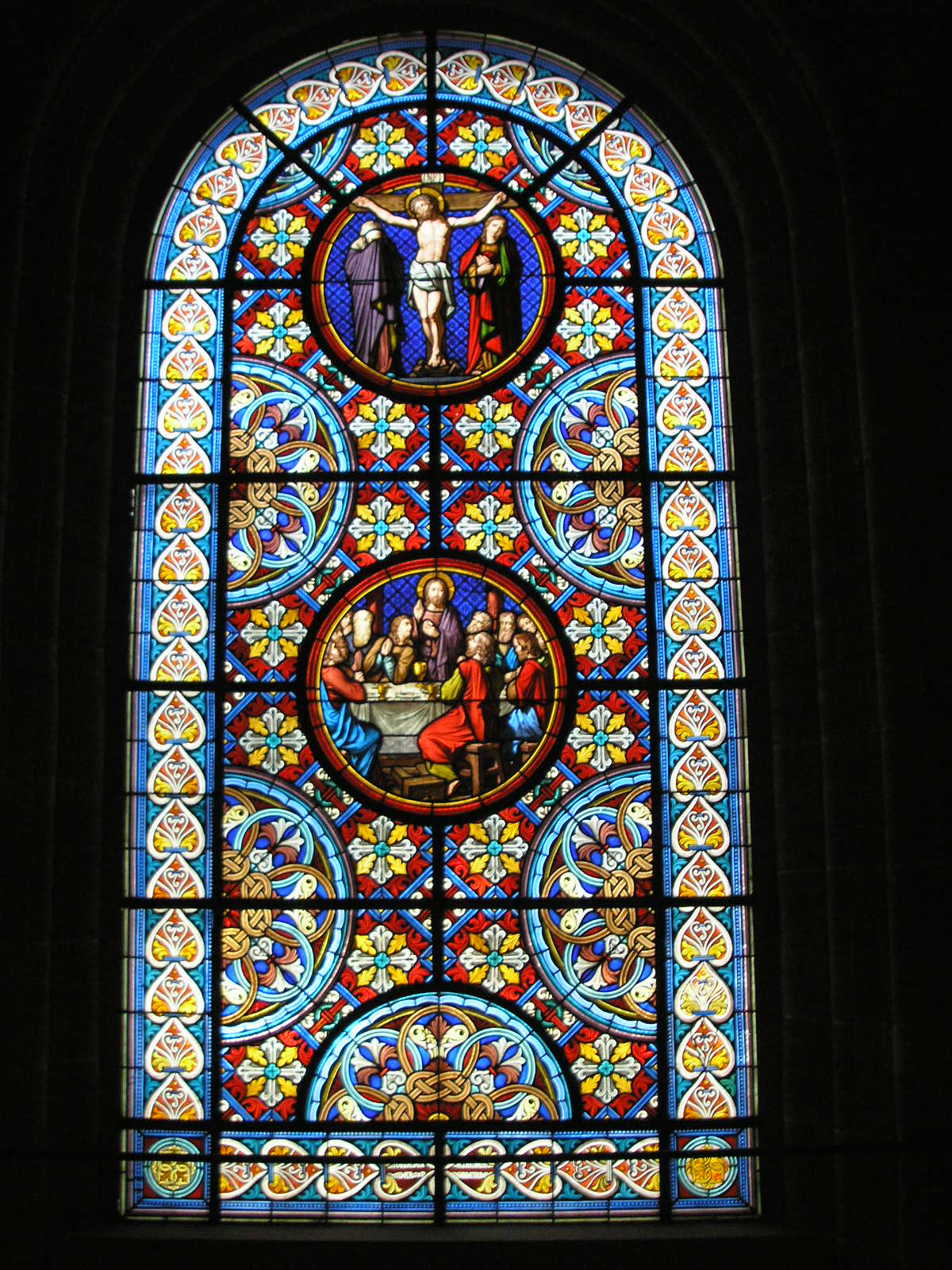 stained glass window in Basel Münster.